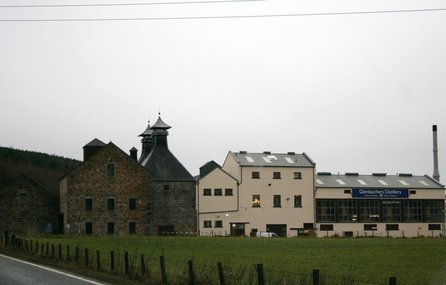 Glentauchers Distillery Drawing its water from the Rosarie Burn ,Allied Distillers Glentaucher produces its own 15 year old malt.